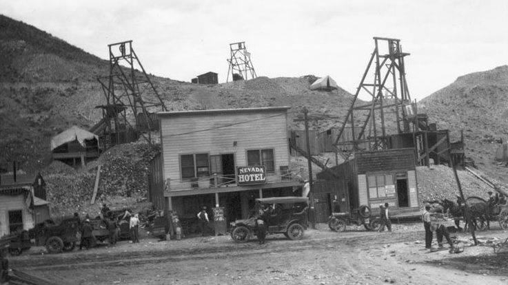 Title: Rawhide, Nevada Photographer/Artist/Creator: Ham, Rolly R. Image DateCa. 1915 Summary/DescriptionPhotograph of the Nevada Hotel, Office of Fidelity Securities Corporation Brokers and mines in Rawhide;a sign in front of the hotel reads: Car for Schurz at 11 a.m.; photographic print, 3.5 x 5.5 inches SubjectBusiness districts-Nevada-Rawhide Hotels-Nevada-Rawhide Mines and mineral resources-Nevada-Rawhide Automobiles-Nevada-Rawhide LocationRawhide (Nev.) Mineral County Nevada CollectionSpecial Collections Photos Image NumberUNRS-P1989-55-3150 Source:Special Collections Department, University of Nevada, Reno Library